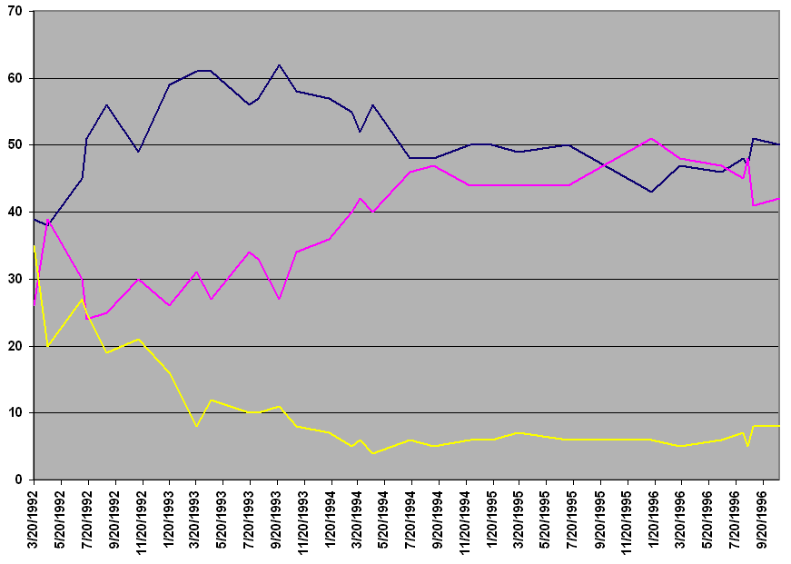 Hillary Rodham Clinton's Gallup Poll ratings, 1992-1996